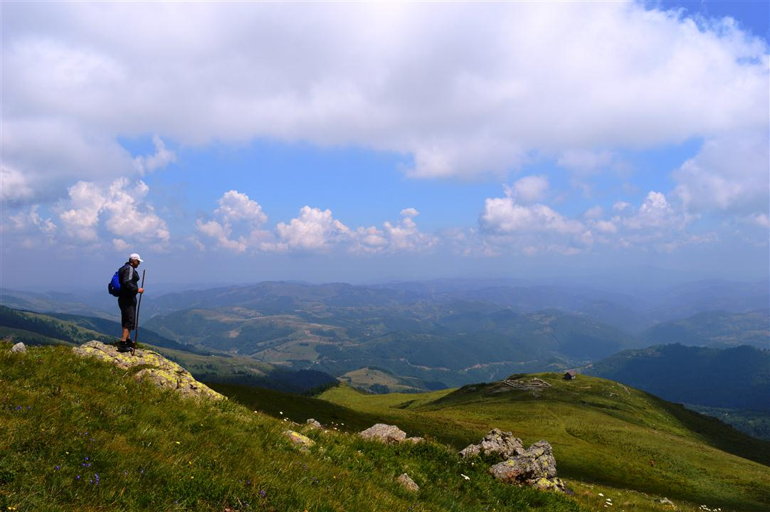 Raska Municipality - Kopaonik